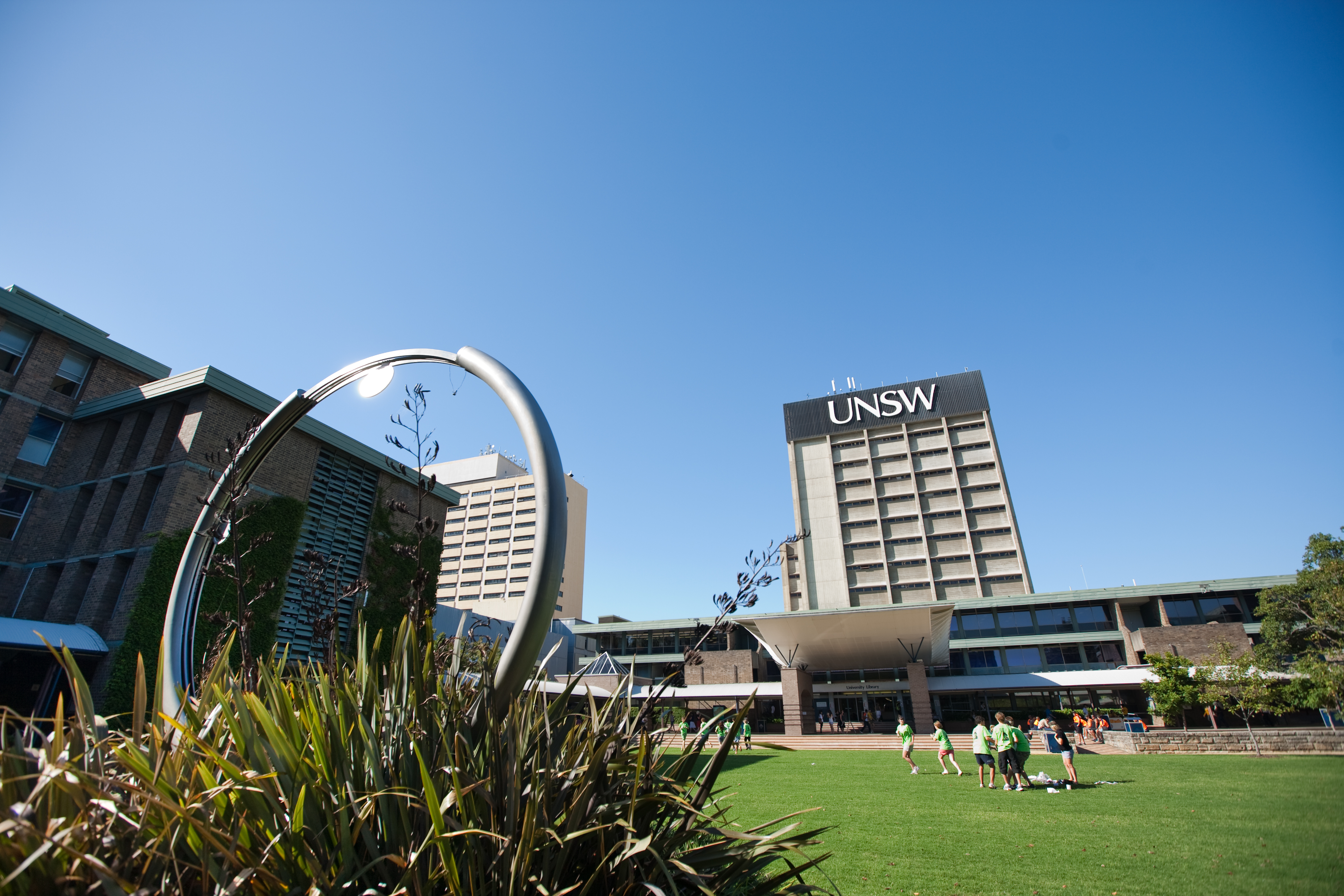 UNSW Library Lawn and library building, with clock in foreground.